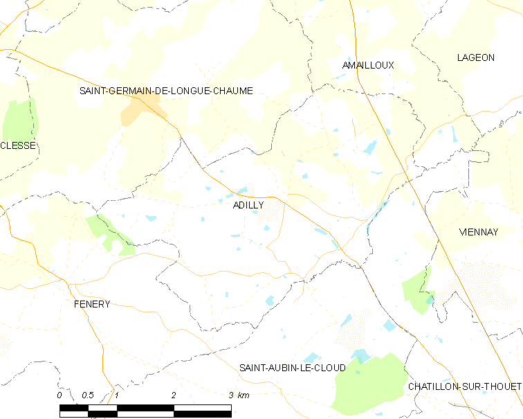 Map of French municipality Adilly